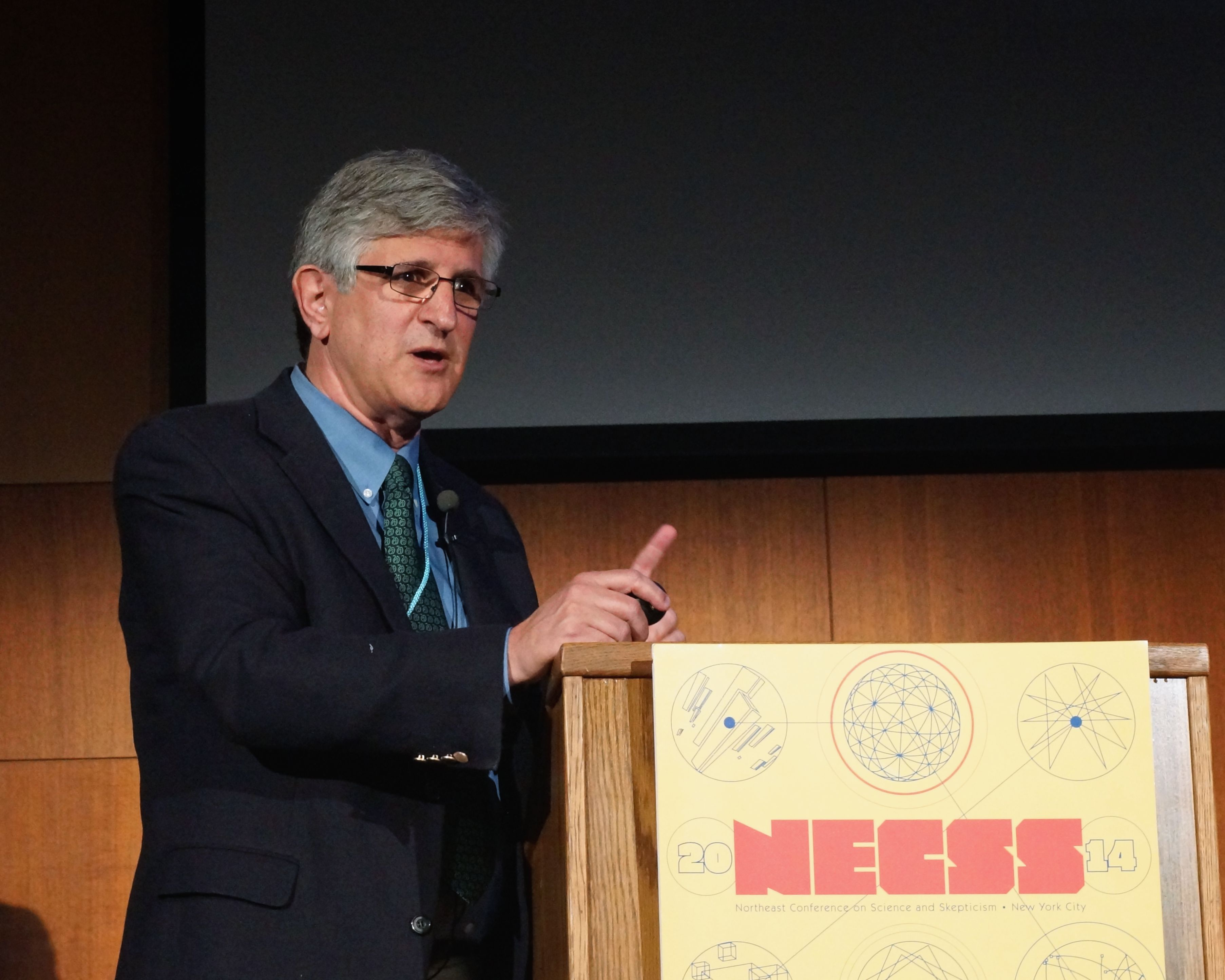 Dr. Paul Offitt spoke at the Northeastern Conference on Science and Skepticism on "The Philadelphia Measles Epidemic-A Most Unreligious Act." April 2014. Fashion Institute of Technology, New York, NY.